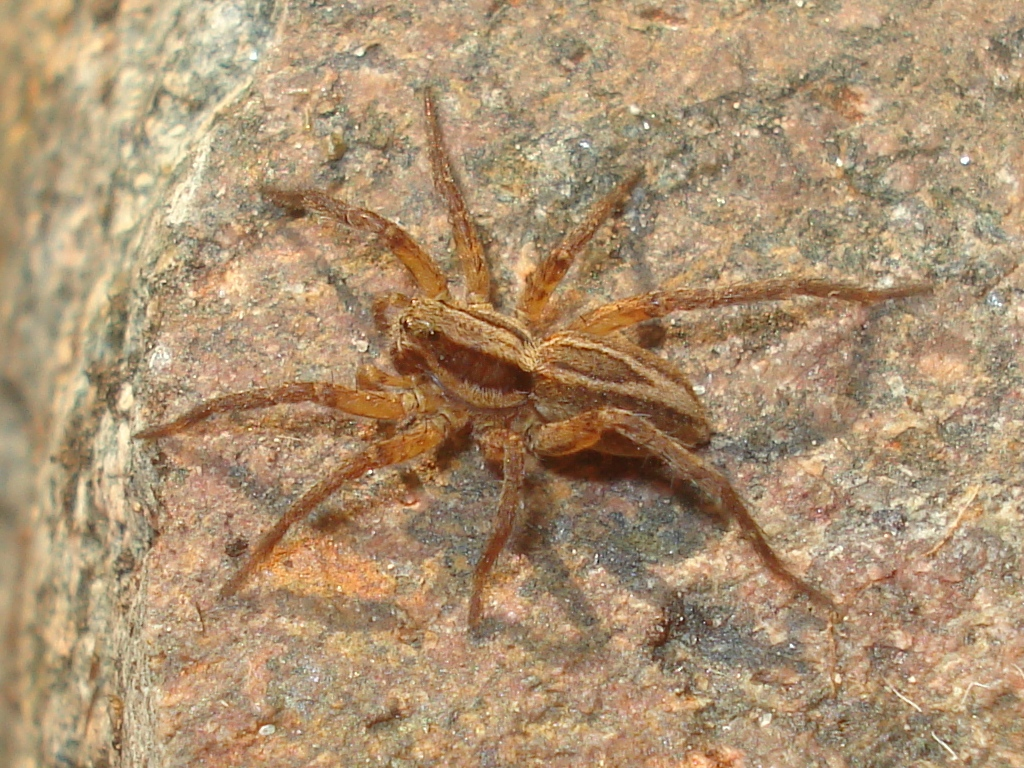 Alopecosa pulverulenta